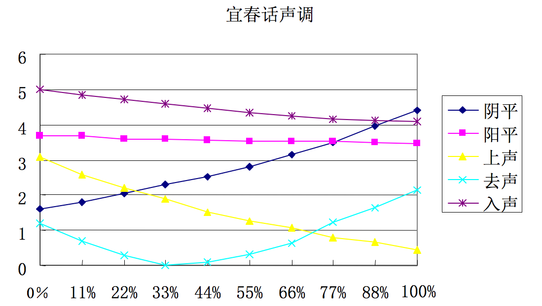 The tone contours of the five Yichun Dialect (Gan Chinese) tones: Yin Level, Yang Level, Rising, Departing, and Entering.